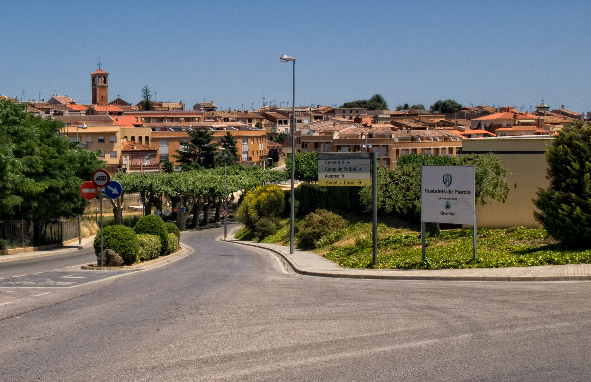 Hostalets de Pierola overview (Catalonia, Spain)